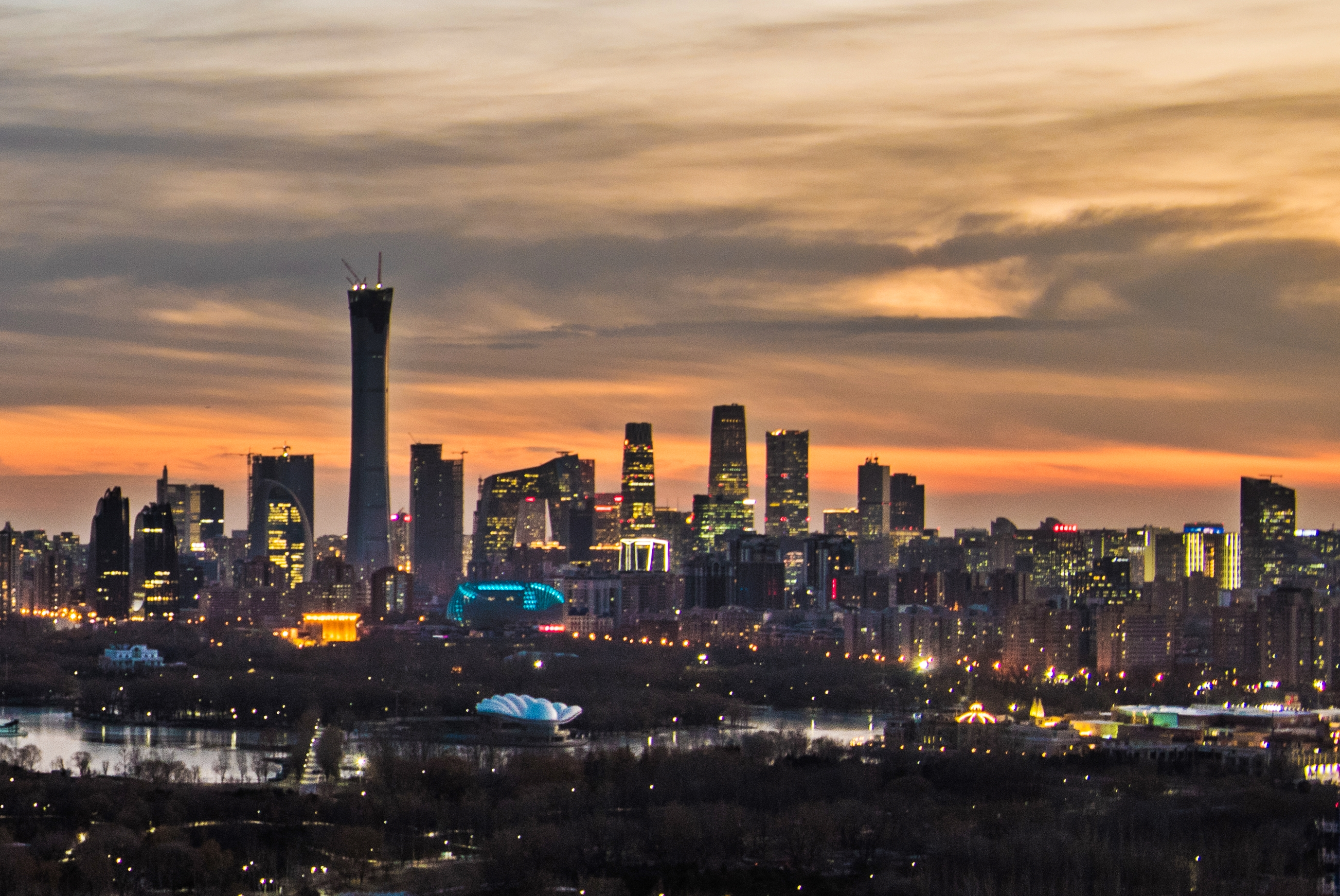 Beijing skyline from northeast 4th ring road of Beijing CBD, Chaoyang Park, and east 4th ring road at dusk